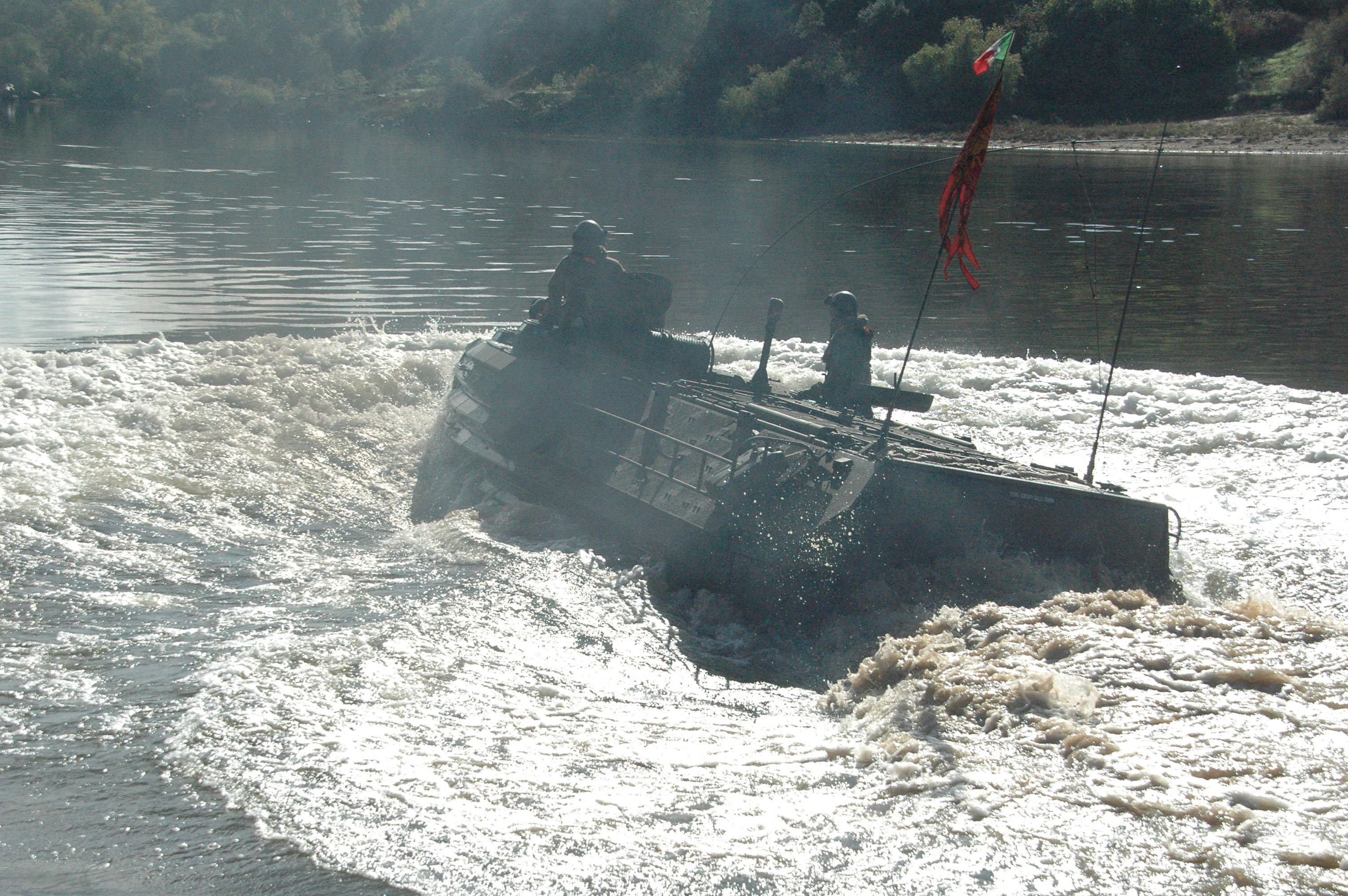 An Italian Amphibious military vehicle of the Army's Lagunari Regiment moves through a cloud of smoke as they cross the Rio Tejo at Tancos, Portugal on October 27, 2015 during Trident Juncture 15. NATO photo by Santa Margarida LOPSCON